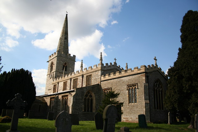 All Saints' parish church, Weston, Nottinghamshire, seen from the southeast